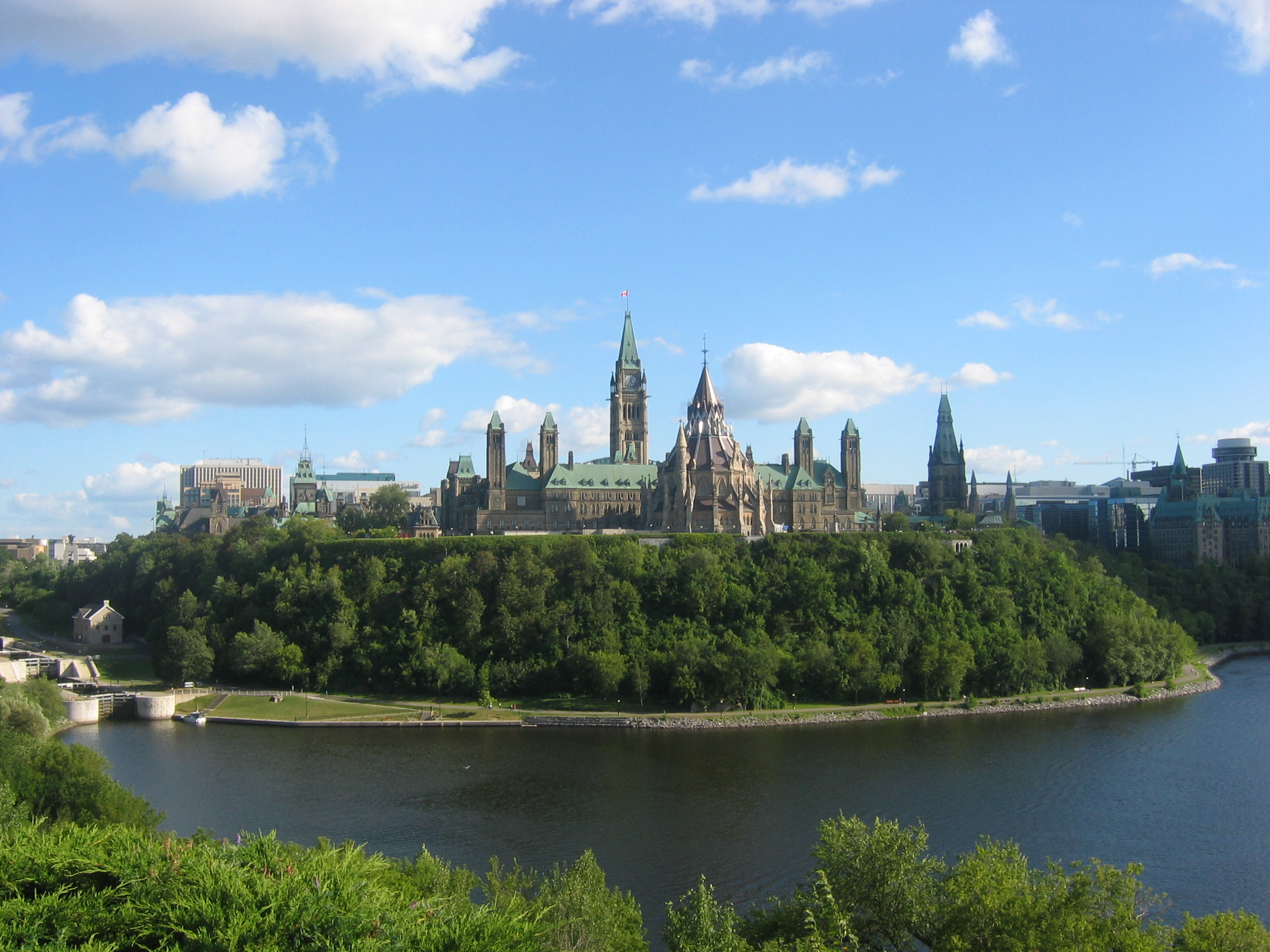 Parliament Hill, Ottawa (Canada)